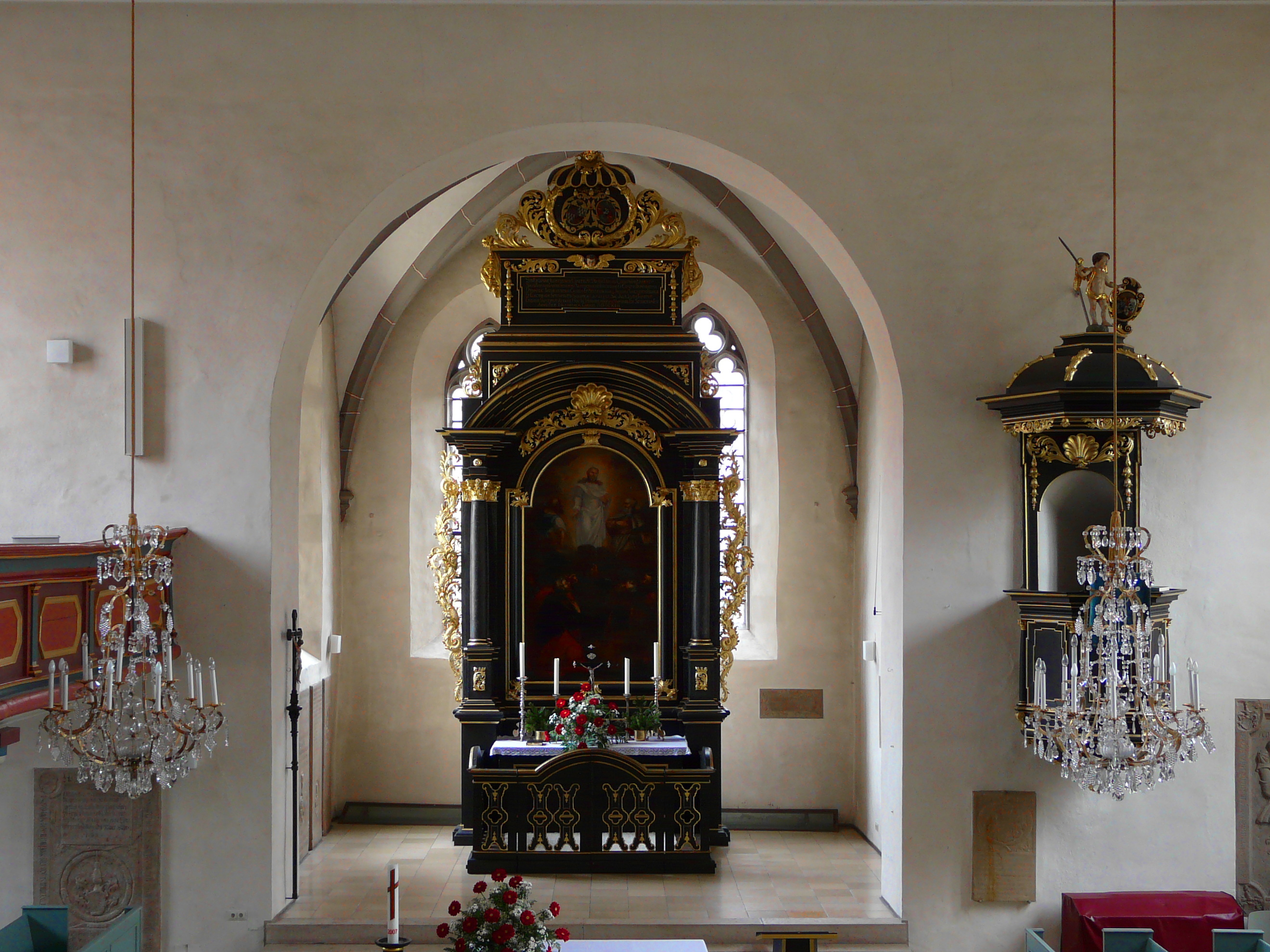 The altar of city church (Stadtkirche) Pappenheim, Germany